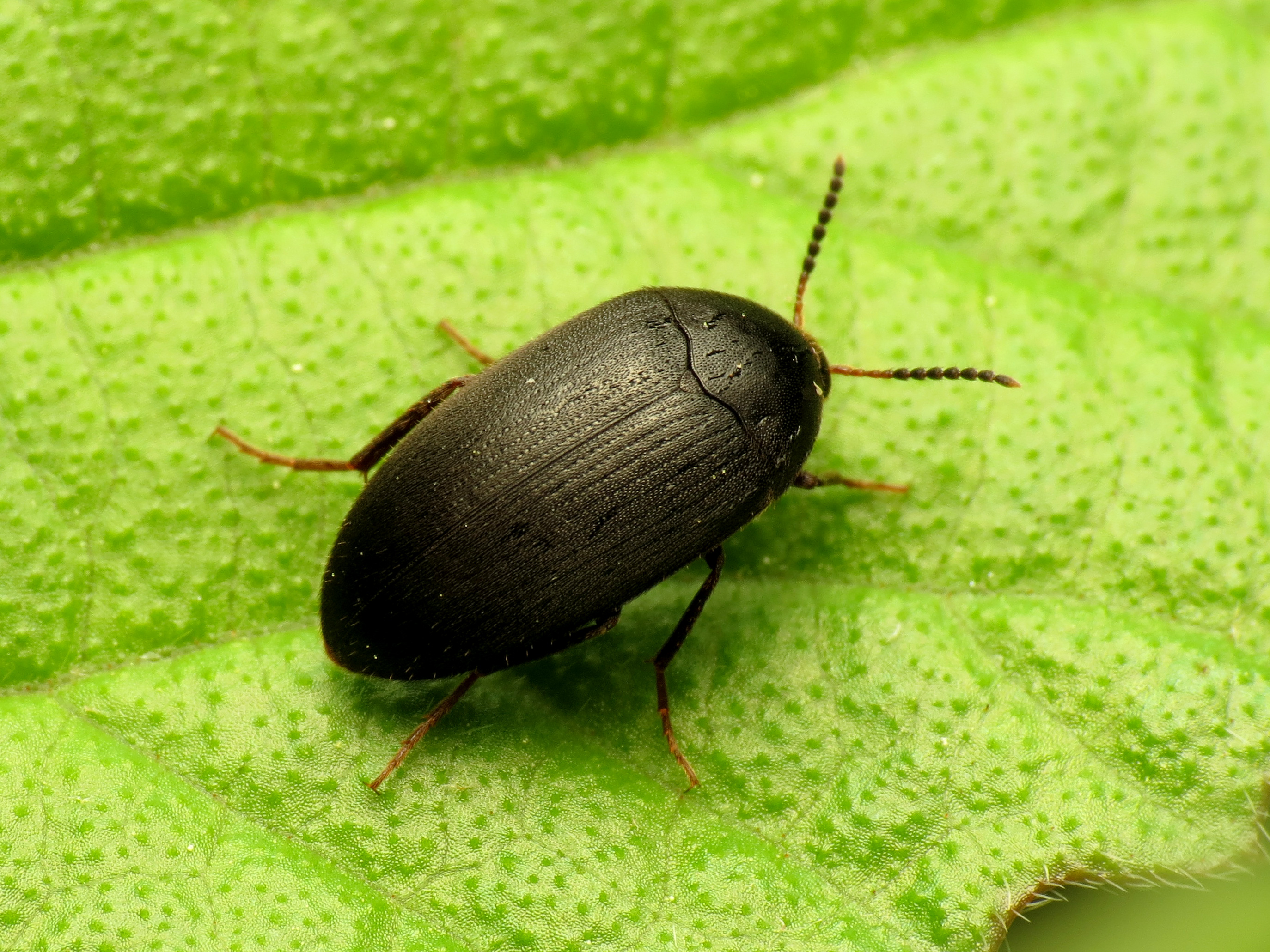 Eustrophopsis bicolor. Rock Creek Park, Washington, DC, USA